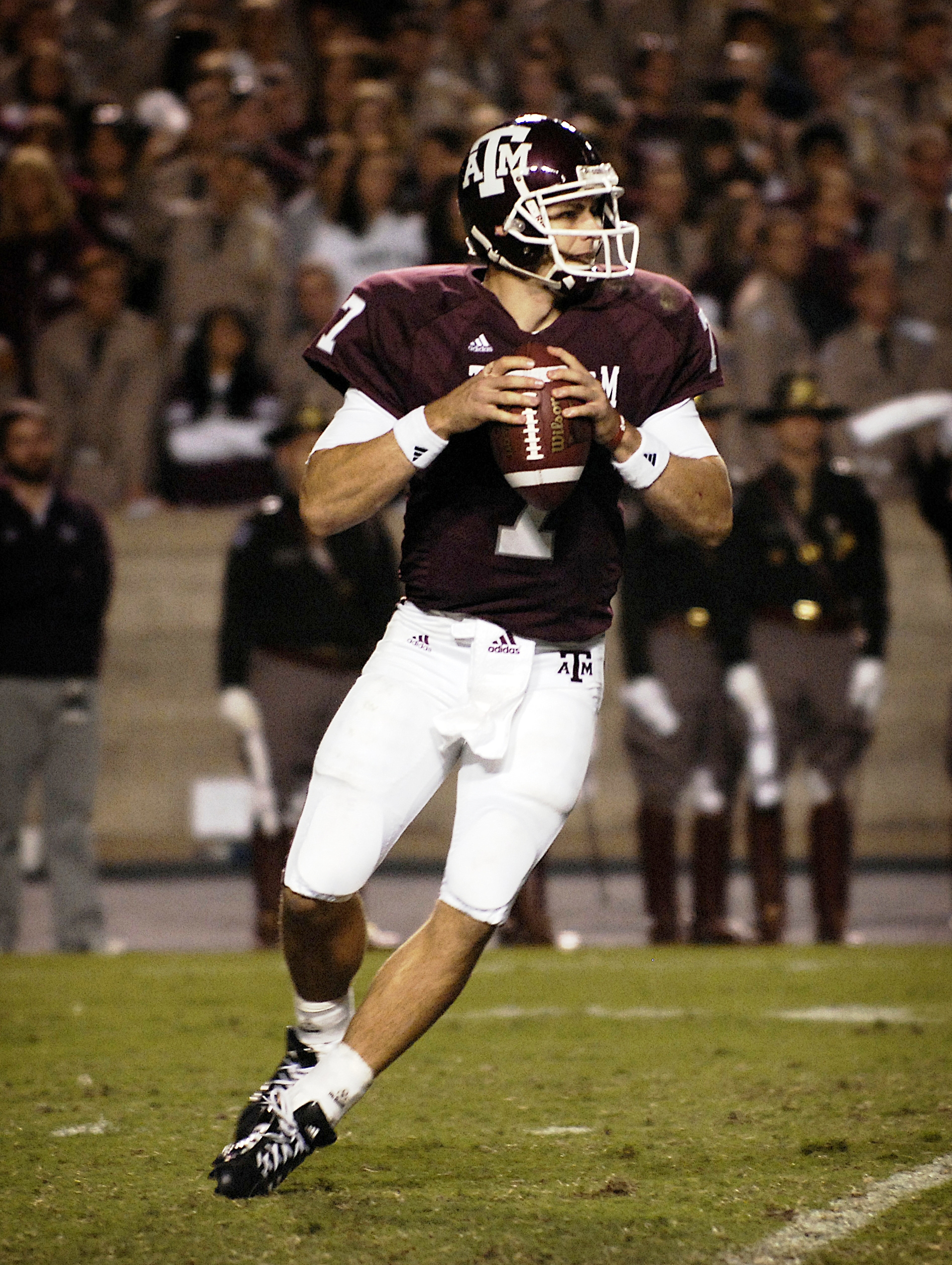 Stephen Richard McGee - The Texas A&M University Texas A&M Aggies battle the University of Kansas Jayhawks during a football game in College Station, Texas, Oct. 27, 2007. Secretary of Defense Robert M. Gates and President George H. W. Bush both attended the game where Gates honored U.S. Marine Corps| 1st Lt. Dan Moran, a former Aggie student who was wounded while serving in Iraq, with the Navy Commendation Medal with Valor. DoD photo by Cherie A. Thurlby. (Released)